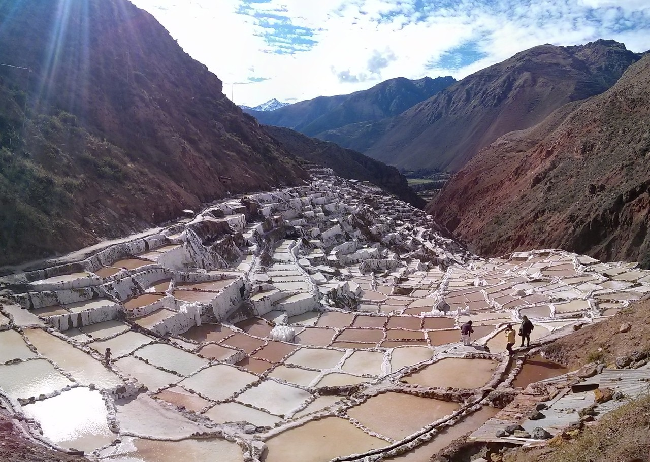 Salt pans at Maras, Peru